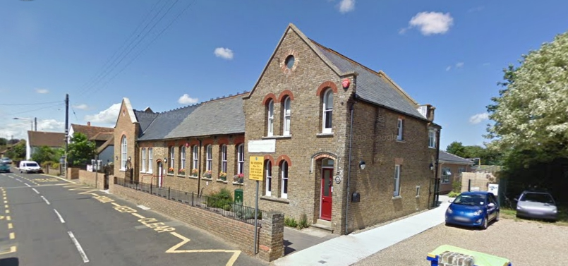 Monkton Church of England Primary school in Summer